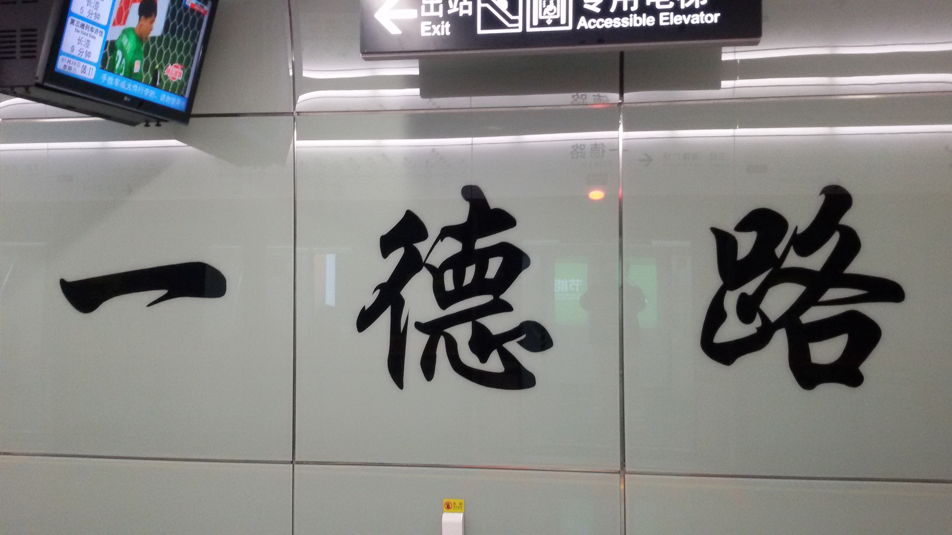 BIG WORD for Yide Lu Station in Guangzhou Metro.